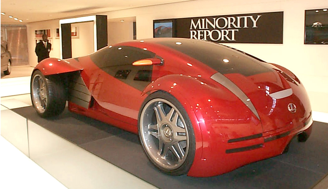 For Minority Report, crop